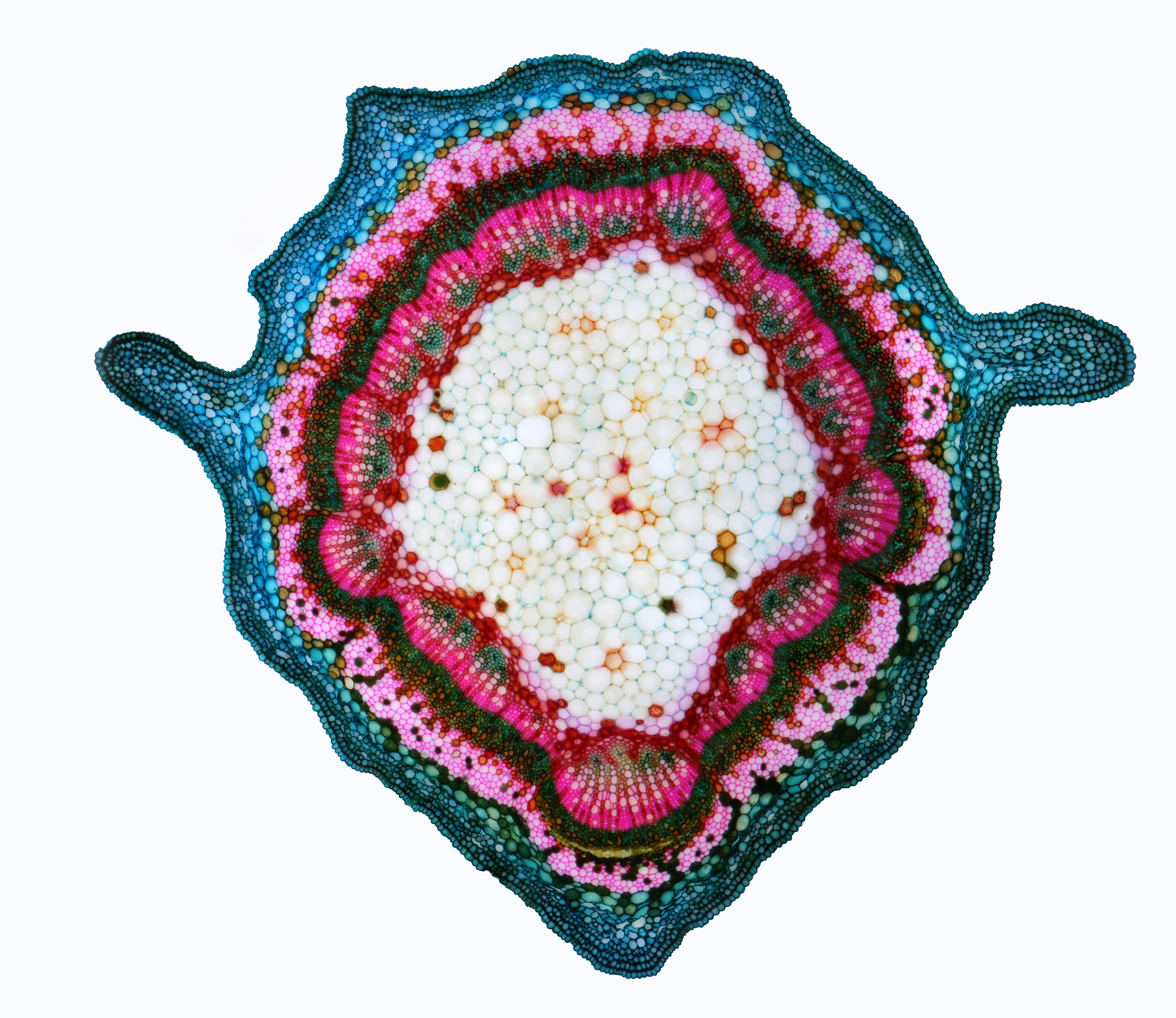 Physocarpus opulifolius / Cross section of the stalk of Physocarpus opulifolius. Author's permanent product, author's polychrome coloring of tissues. A panorama of 32 frames. Light microscopy, bright field